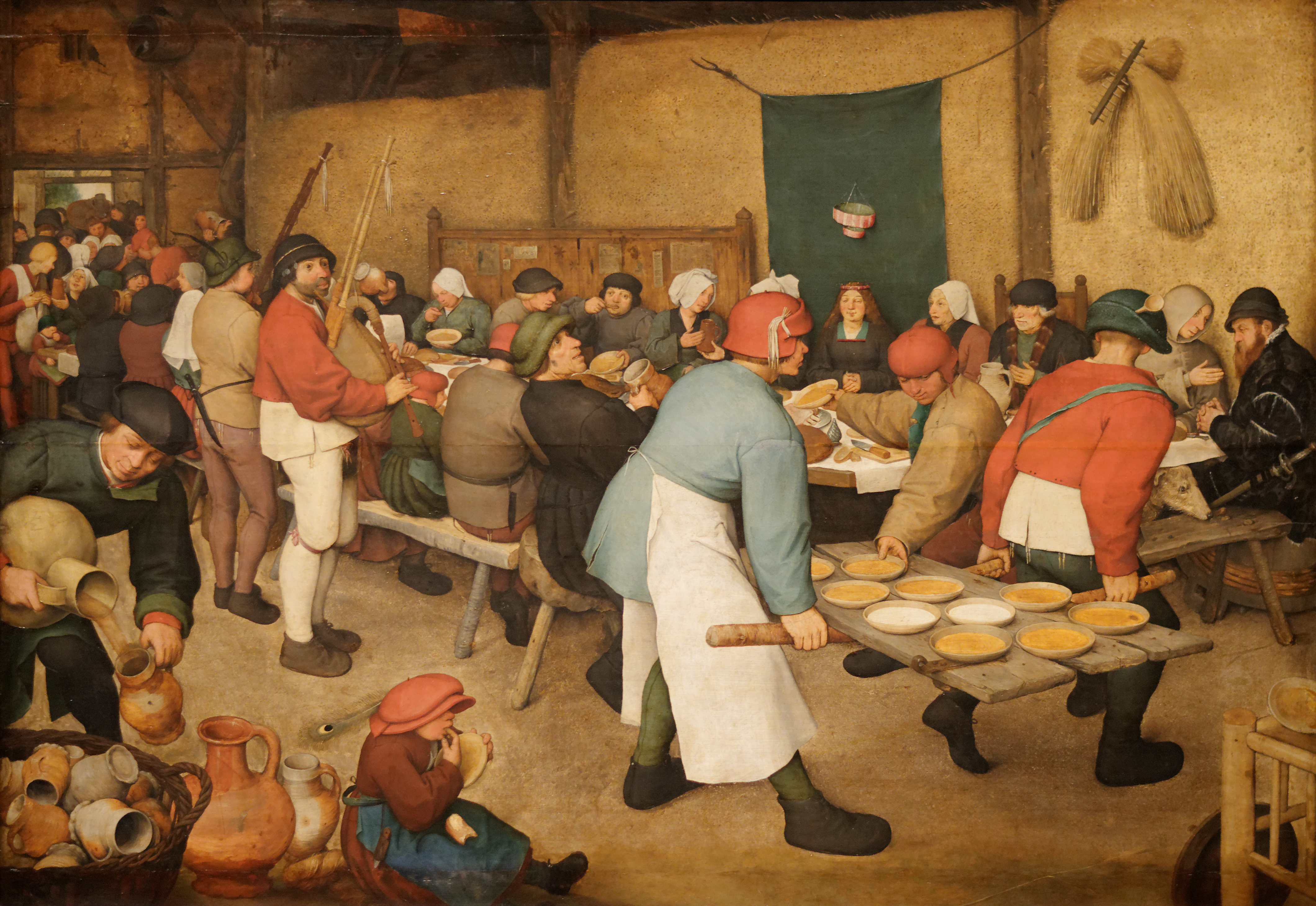 Peasant Wedding (1568). Pieter Bruegel the Elder